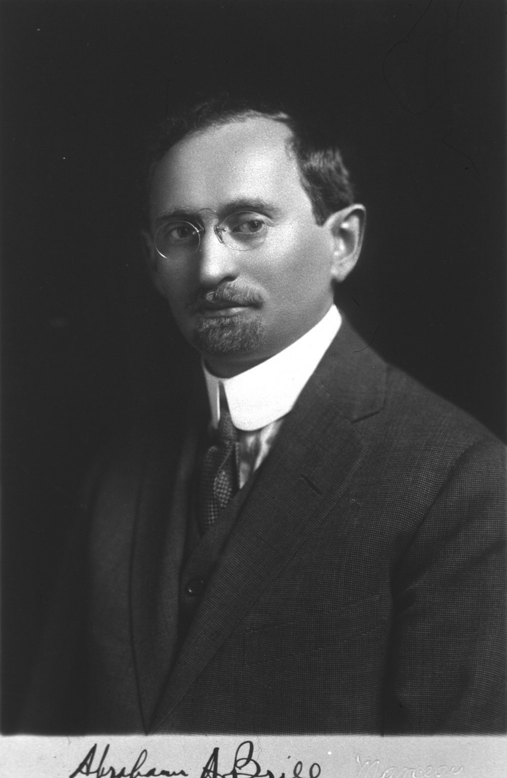 Abraham A. Brill